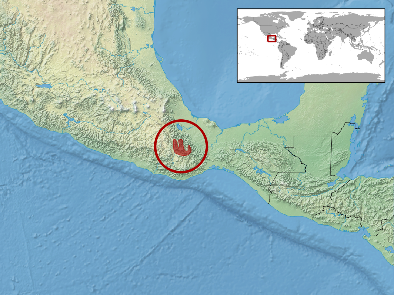 geographic distribution of Mesaspis viridiflava (Native: Mexico)